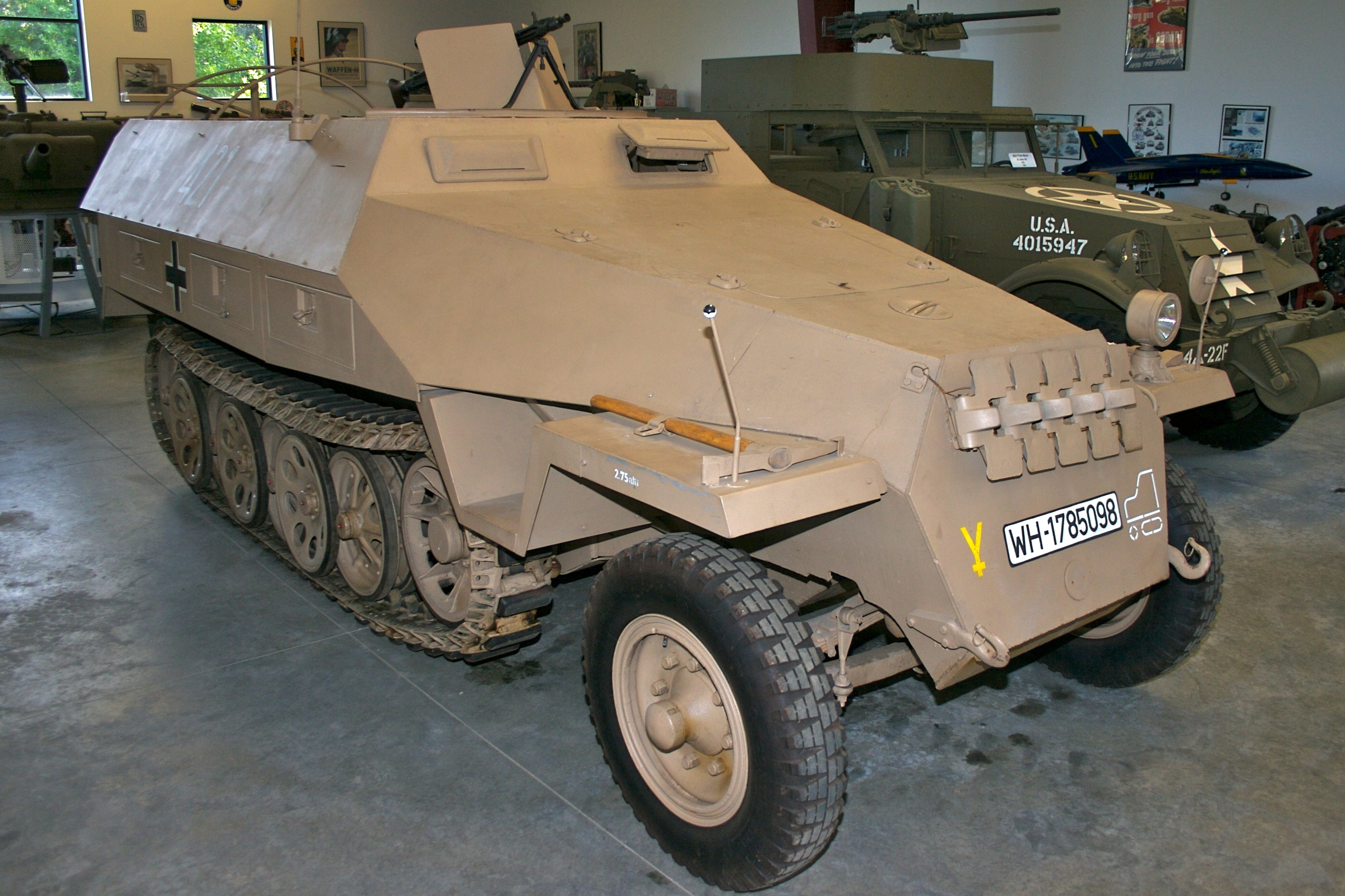 An SdKfz 251 Ausf.D in a private collection.